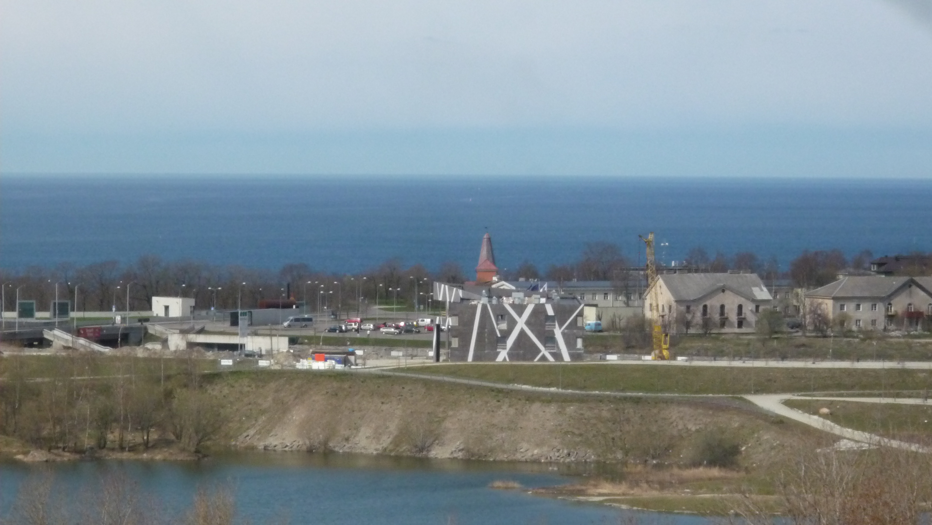 View from Tallinn rear lighthouse to Tallinn front lighthouse (red triangle).